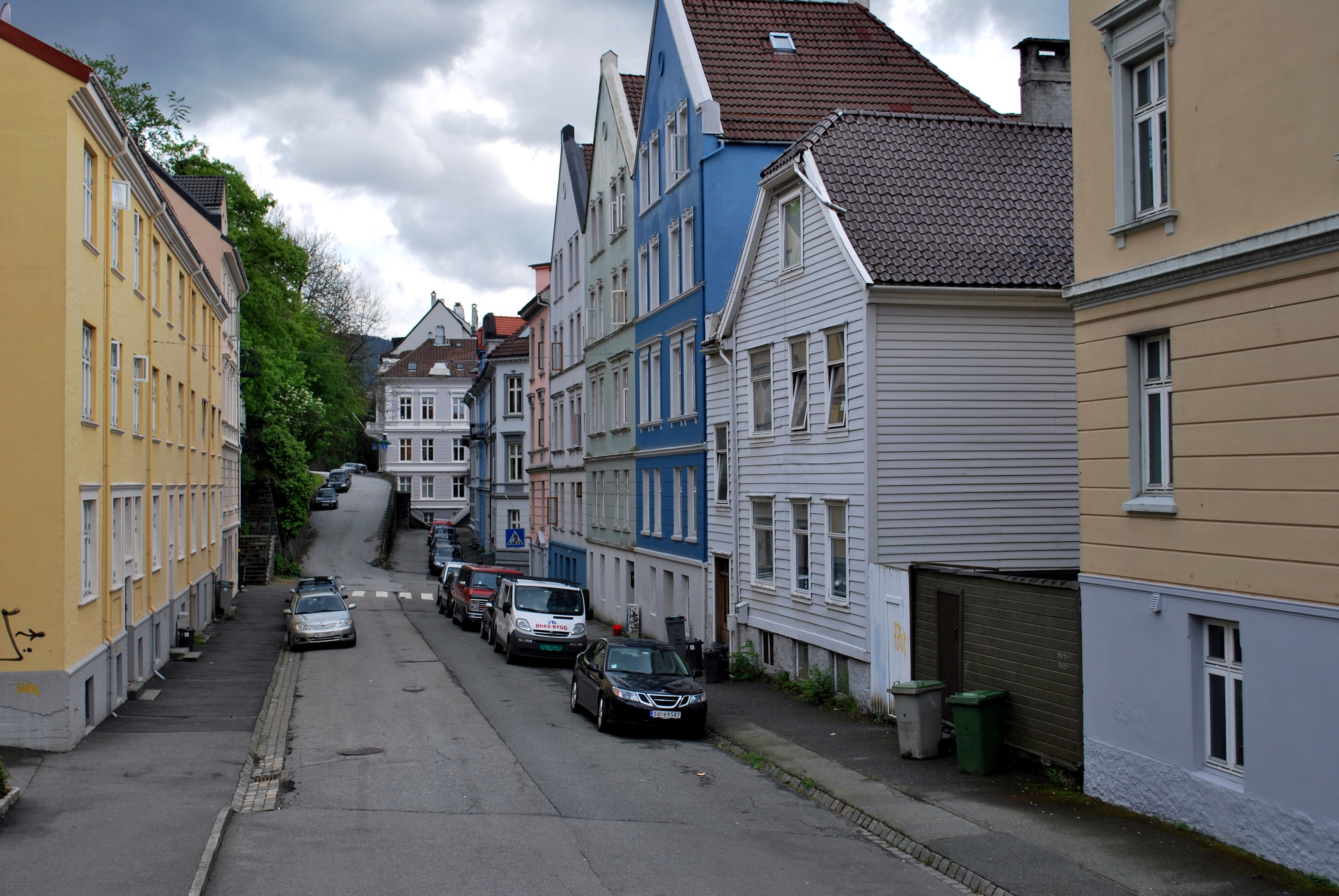 Ole Vigs gate, street at Møhlenpris in Bergen, Norway.